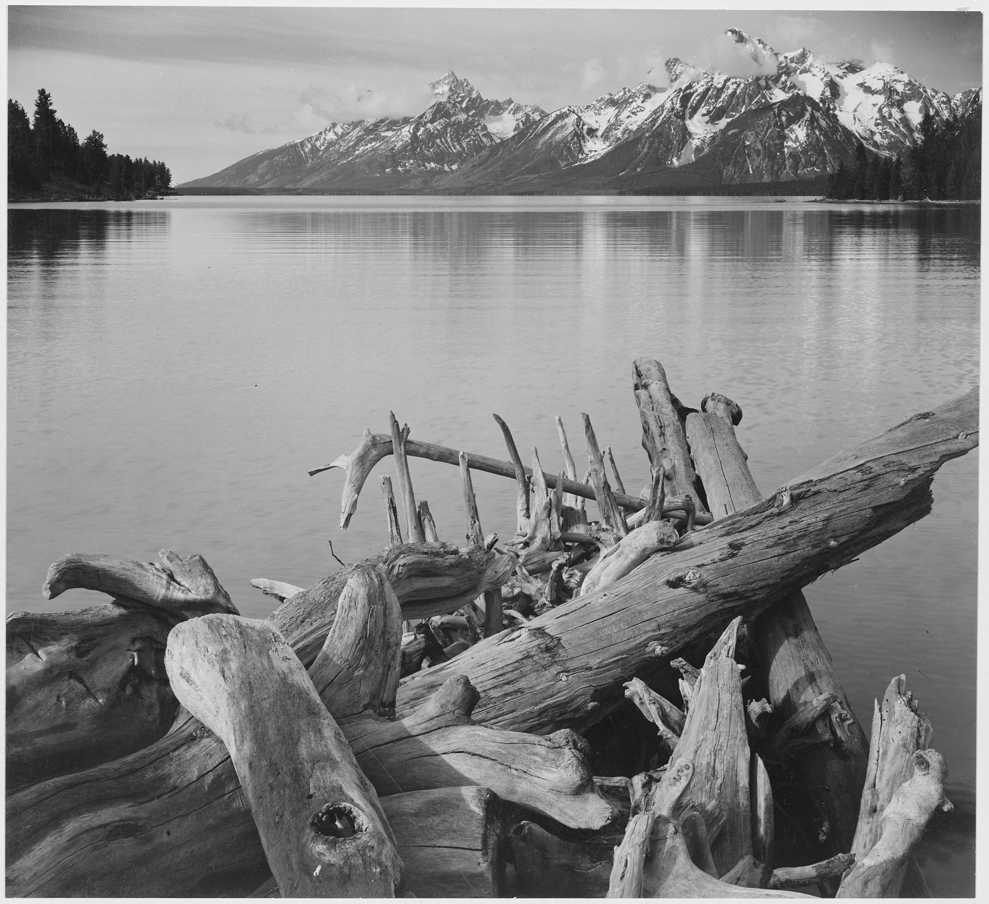 General notes: No caption for this item was provided by Ansel Adams, caption provided by NARA staff. This item was previously designated NWDNS-79-AA-F06